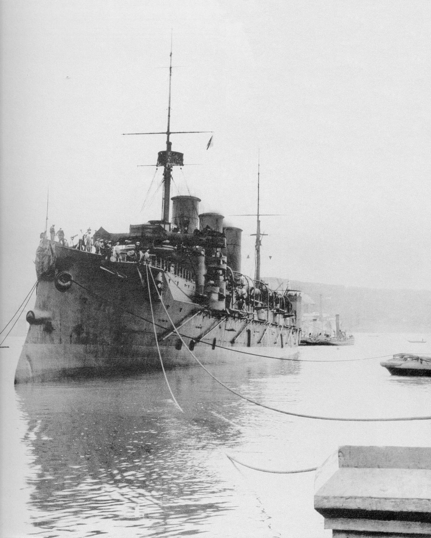 Imperial Russian cruiser Bogatyr'.